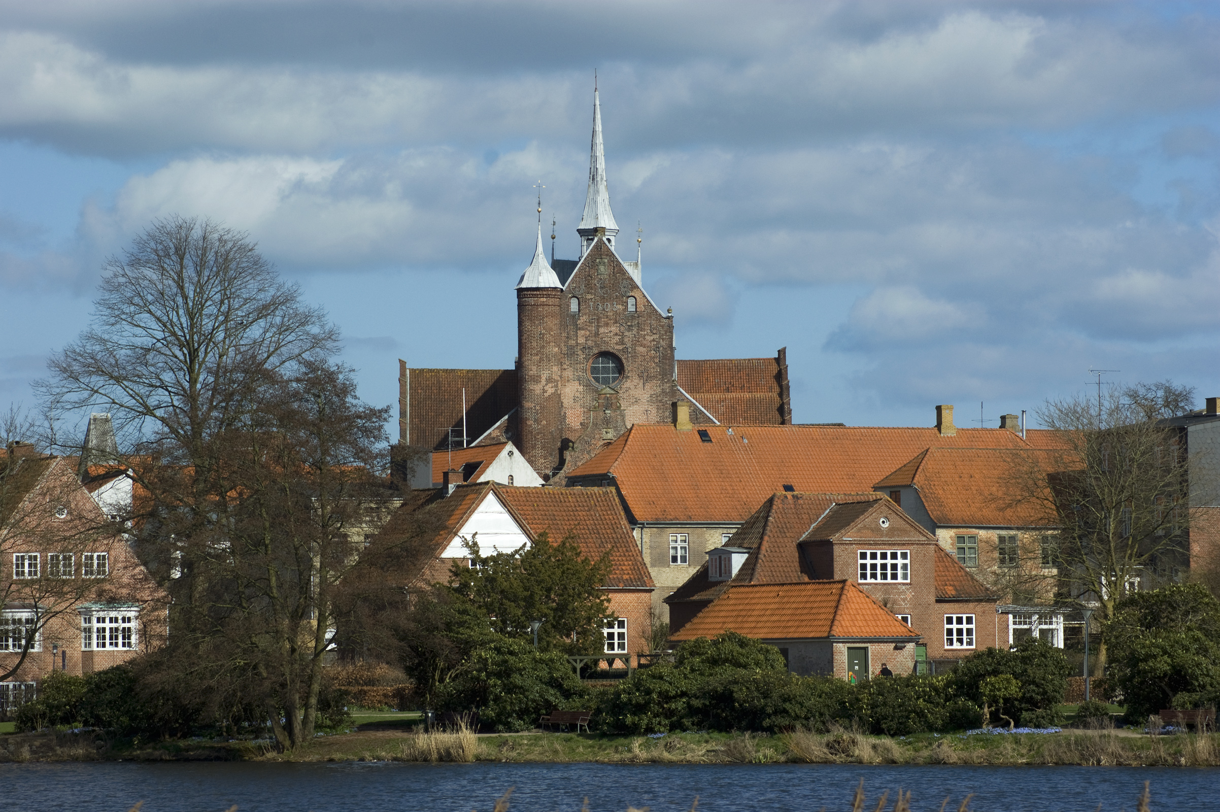 Haderslev Cathedral in Haderslev, Denmark